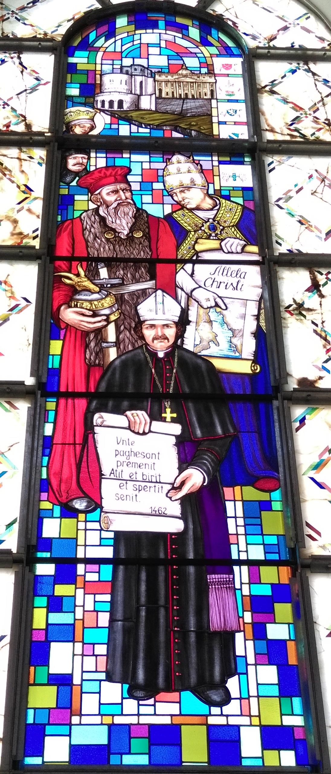 Stained glass depiction of Pope Callixtus III, Skanderbeg and Pal Engjëlli at the Cathedral of Saint Mother Teresa in Prishtina